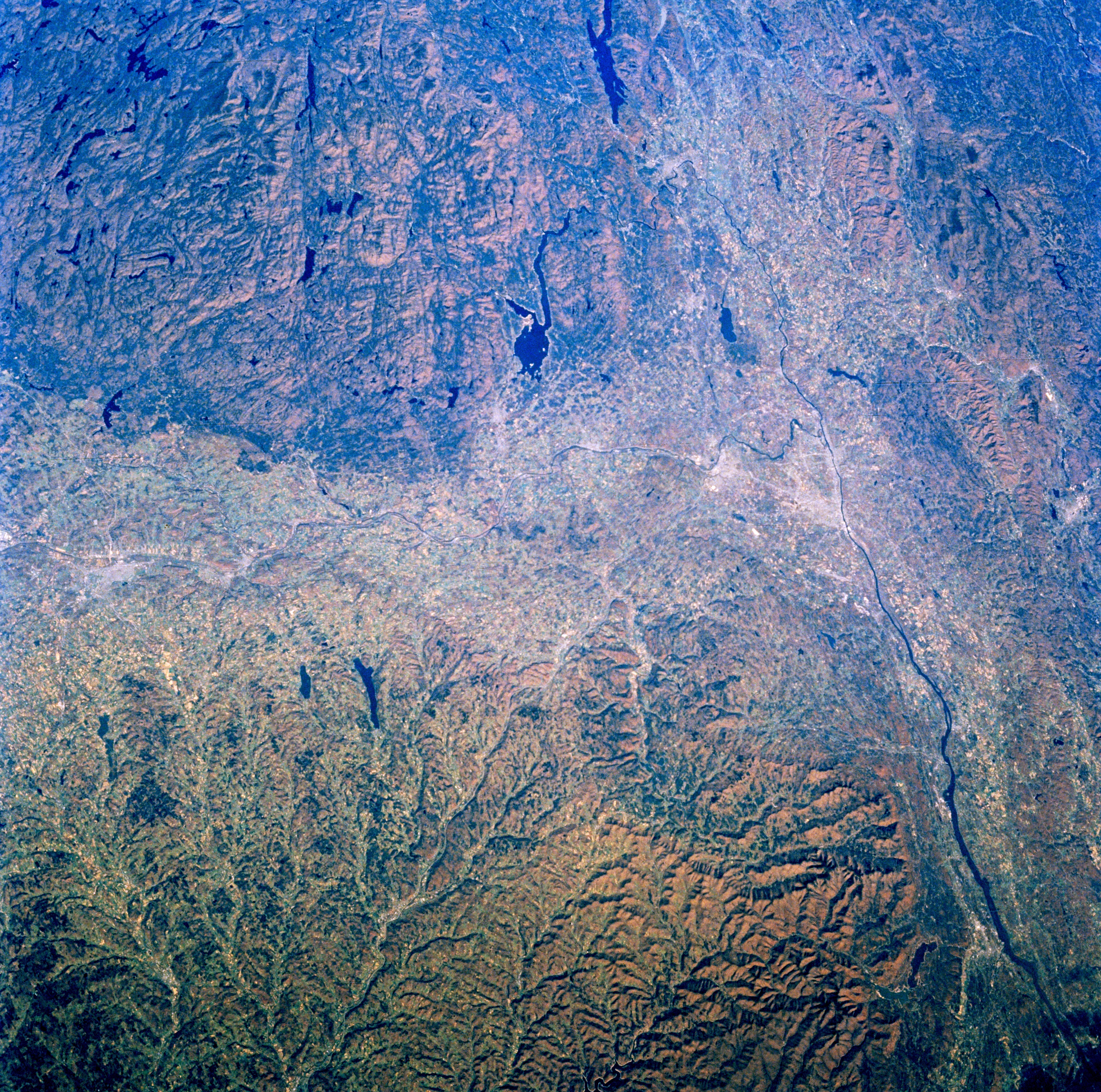 November 1985 aerial view of the Mohawk and Hudson Valleys during Space Shuttle Challenger STS-61-A-33-0044. Utica can be seen center left while Albany is within the Hudson Valley, center right.